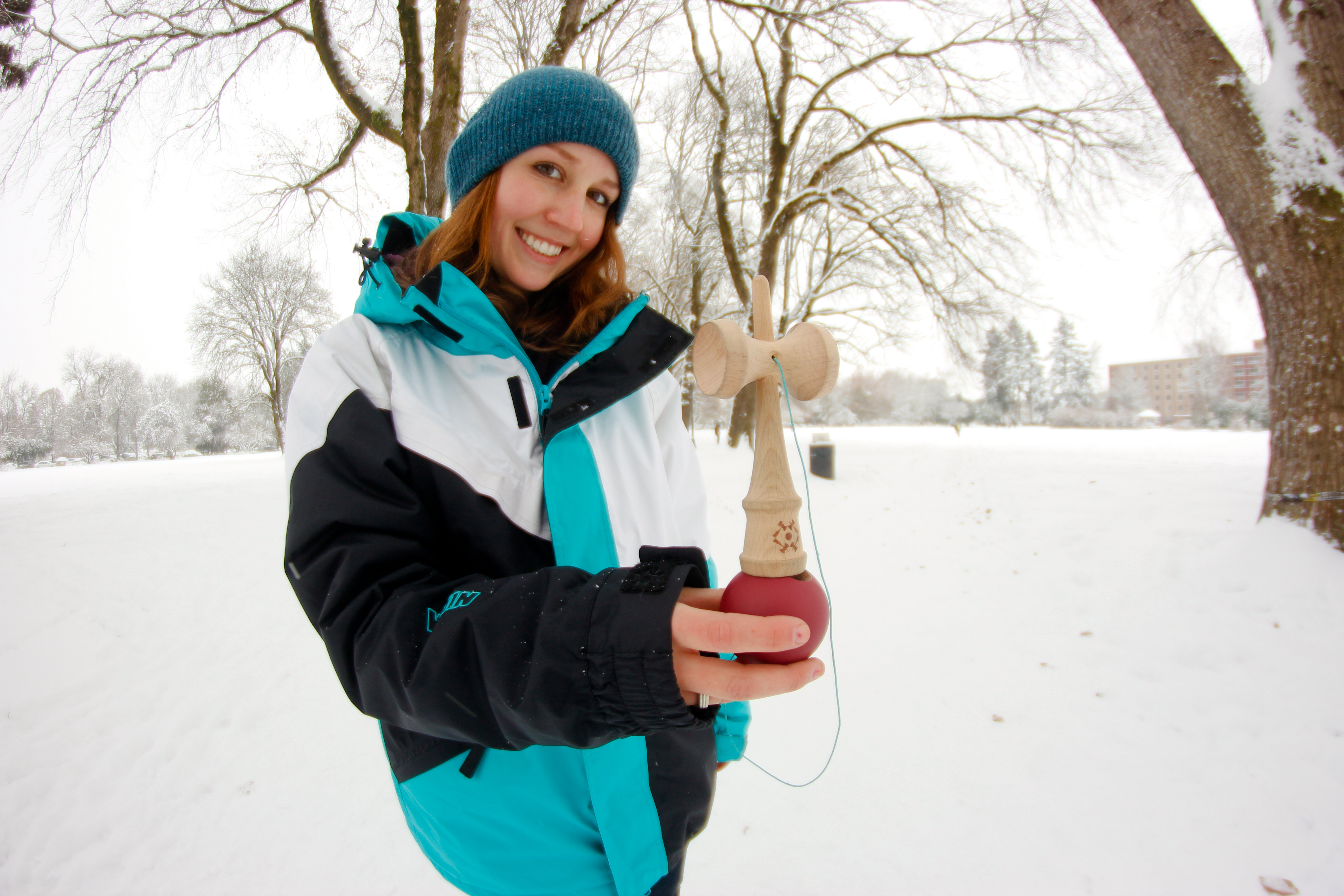 Haley Bishoff Kendama